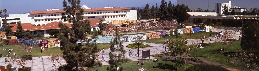 Spring 1991. View of protest wall west side from top of library. Student art protesting to keep "quality affordable education." Eight students arrested sitting in front of wall on right side grass area near steps. They successfully stopped the administration from painting over the mostly political art. As word spread over night, the following morning other students took up sitting in front of wall. Local News media showed up to cover protest. The painters were unsuccessful and called off by the administration.